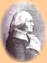 Portrait of Abrahm Gottlieb Werner, a German mineralogist.